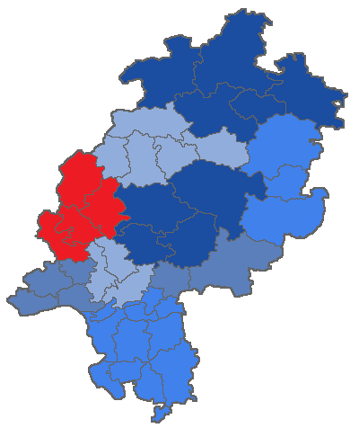 Map of the district court Limburg a. d. Lahn in Hesse